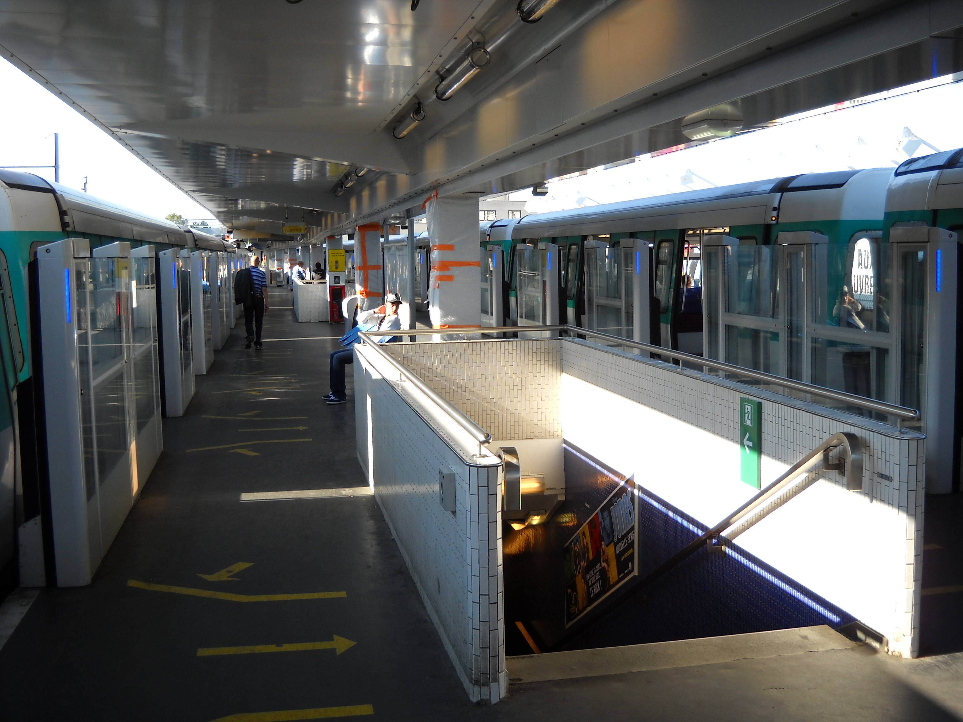 "Châtillon - Montrouge" station, on Paris Metro line 13.